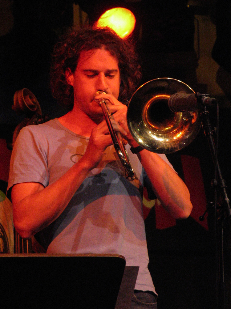 Nils Wogram at Moers Festival 2004 own photo, may 29, 2004 photo: nomo/michael hoefner